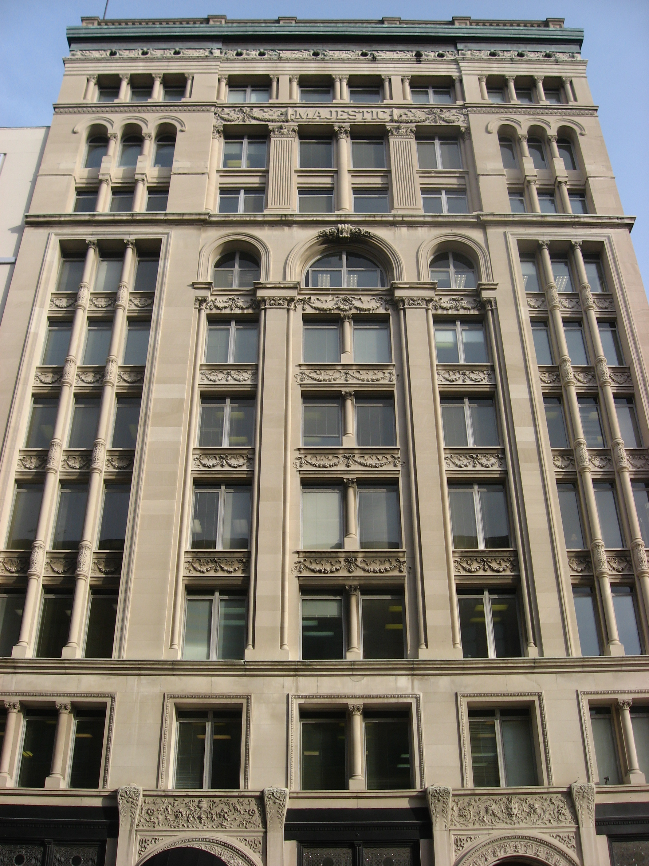 Front of the Majestic Building, located at 47 S. Pennsylvania Street in Indianapolis, Indiana, United States. Built in 1895, it is listed on the National Register of Historic Places, and it is a contributing property to the Register-listed Indianapolis Union Station-Wholesale District.